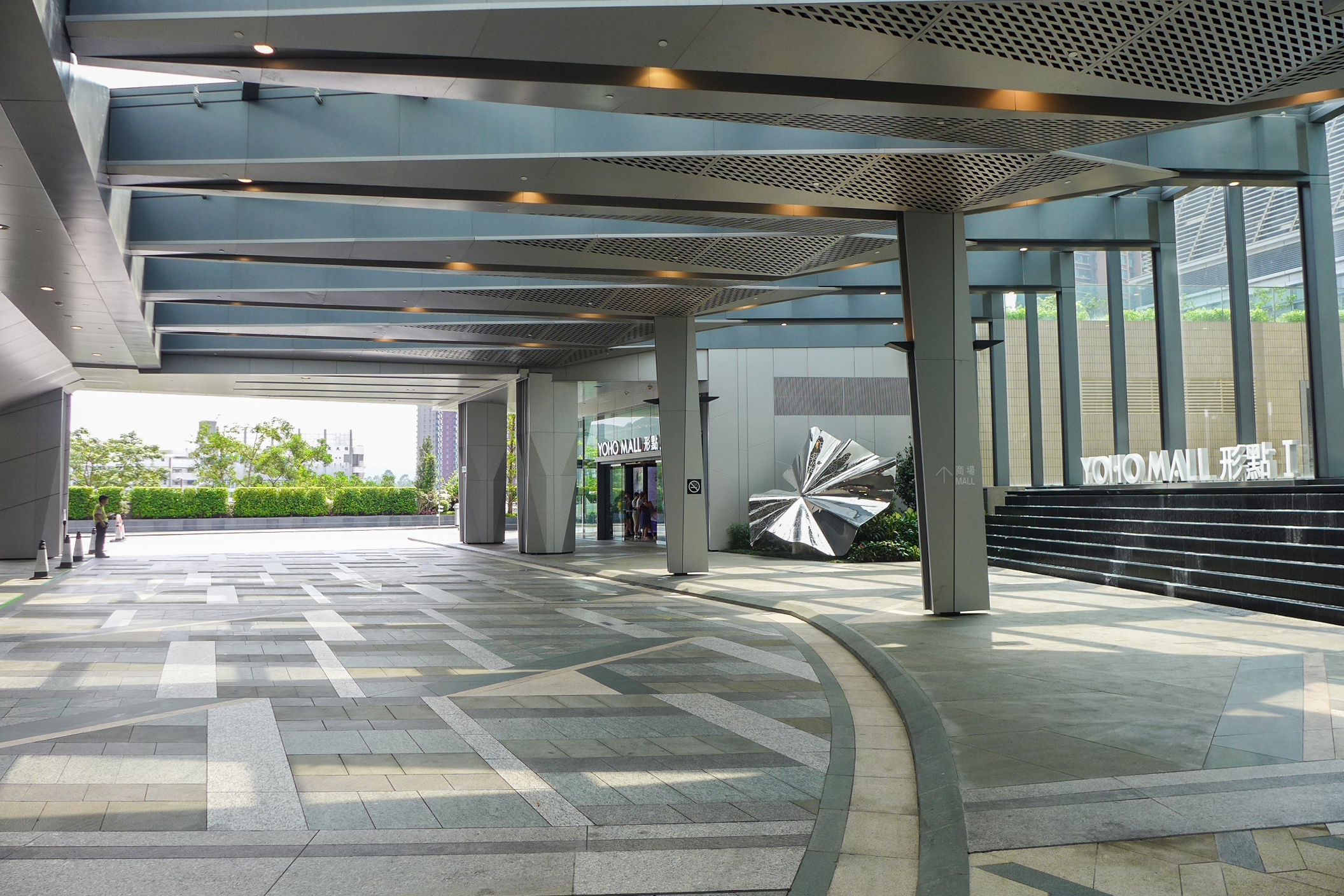 YOHO Mall Extension Drop off area